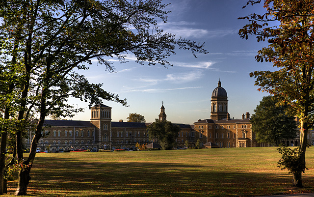 Princes Park Manor Originally Colney Hatch Asylum. Building started in 1849 to a design by S W Daukes. The foundation stone was laid by Prince Albert. The asylum opened in 1851. It was built to hold 1000 patients and had 6 miles of corridors - it was the largest in Europe. The site was extended over time to hold 2000 patients and the name Colney Hatch became synonymous with madness, such that the hospital name was changed on several occasions, finally becoming Friern Hospital in 1959. It closed in 1993 and was converted to housing. A fuller history is available from